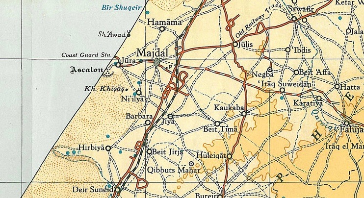 Ashkelon 1945 1:250,000